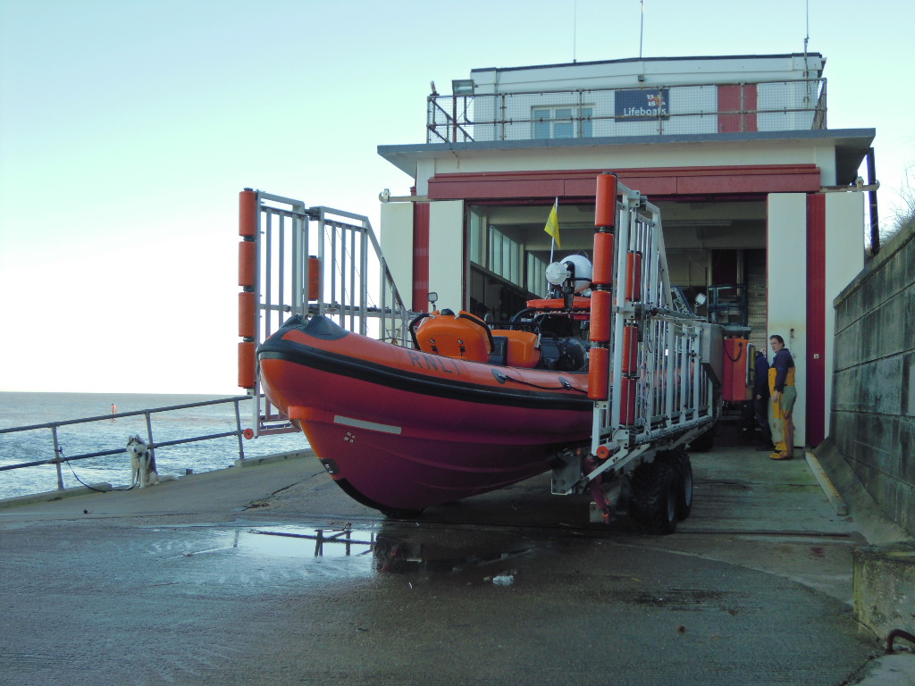 The Sheringham Inshore lifeboat RNLB The Oddfellows (B 818) In its launch cage outside the station